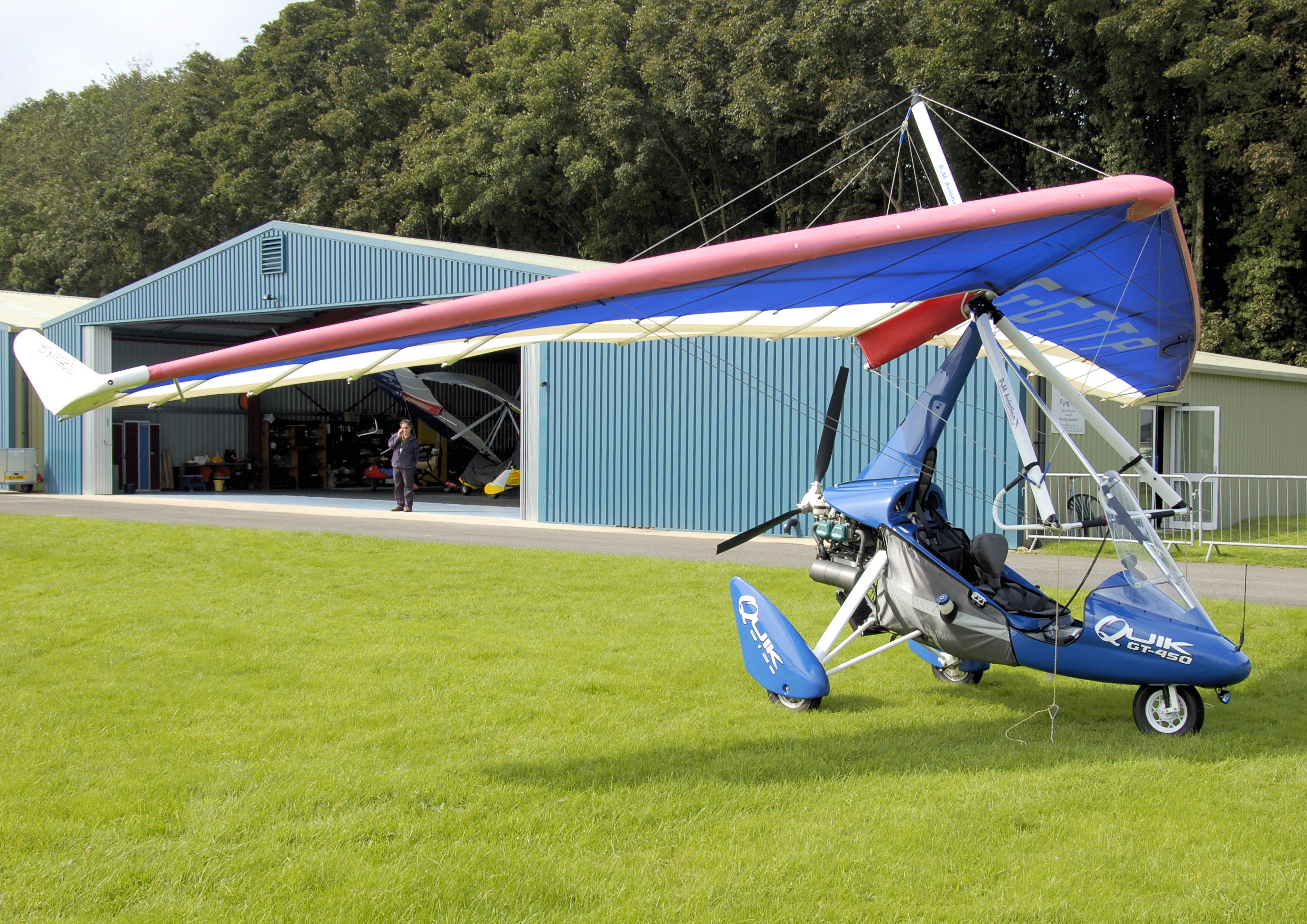 P and M Aviation Quik GT450 ultralight (G-GTTP) at the 2008 Open Day, Kemble Airport, Gloucestershire, England.